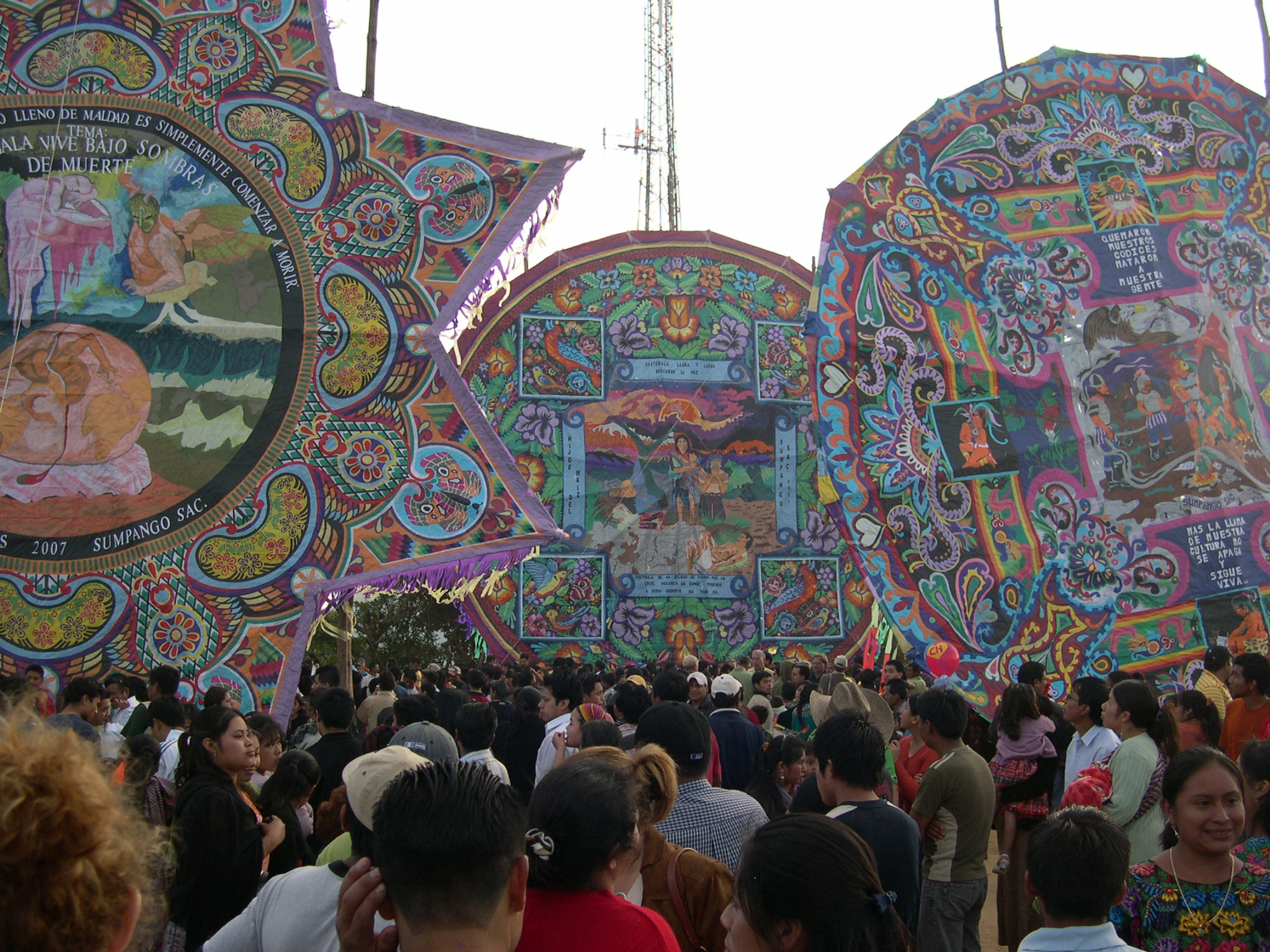 barrilete gigante